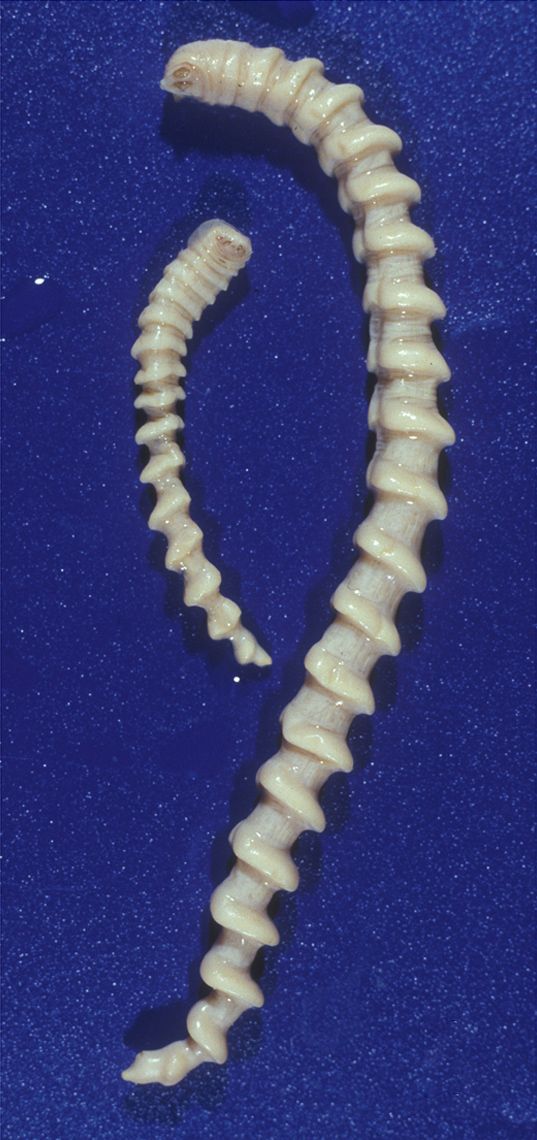 Adult male (small) and female (large) of Armillifer sp.